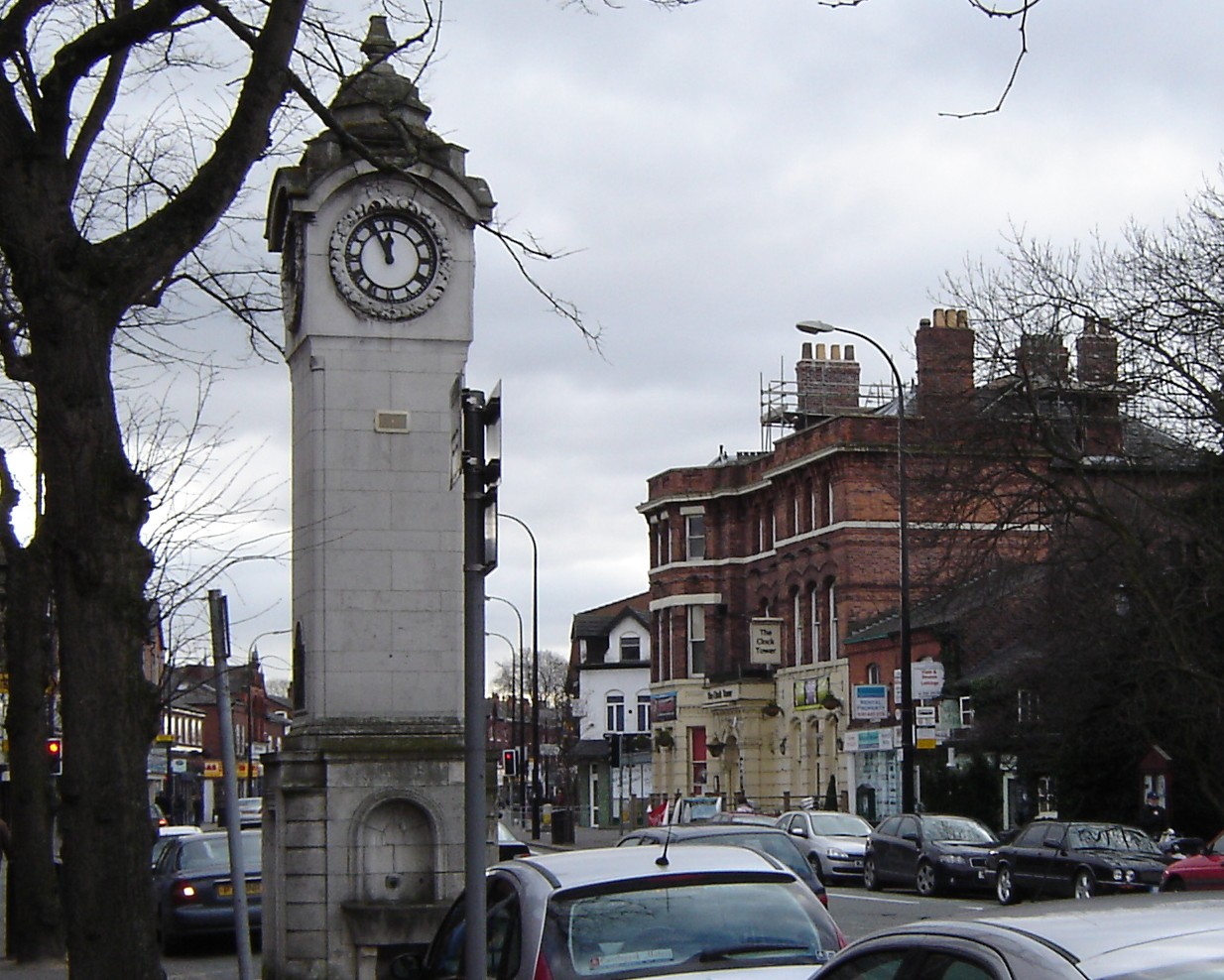 Wilmslow Road in Didsbury Village, Manchester, with the clock tower in the foreground.